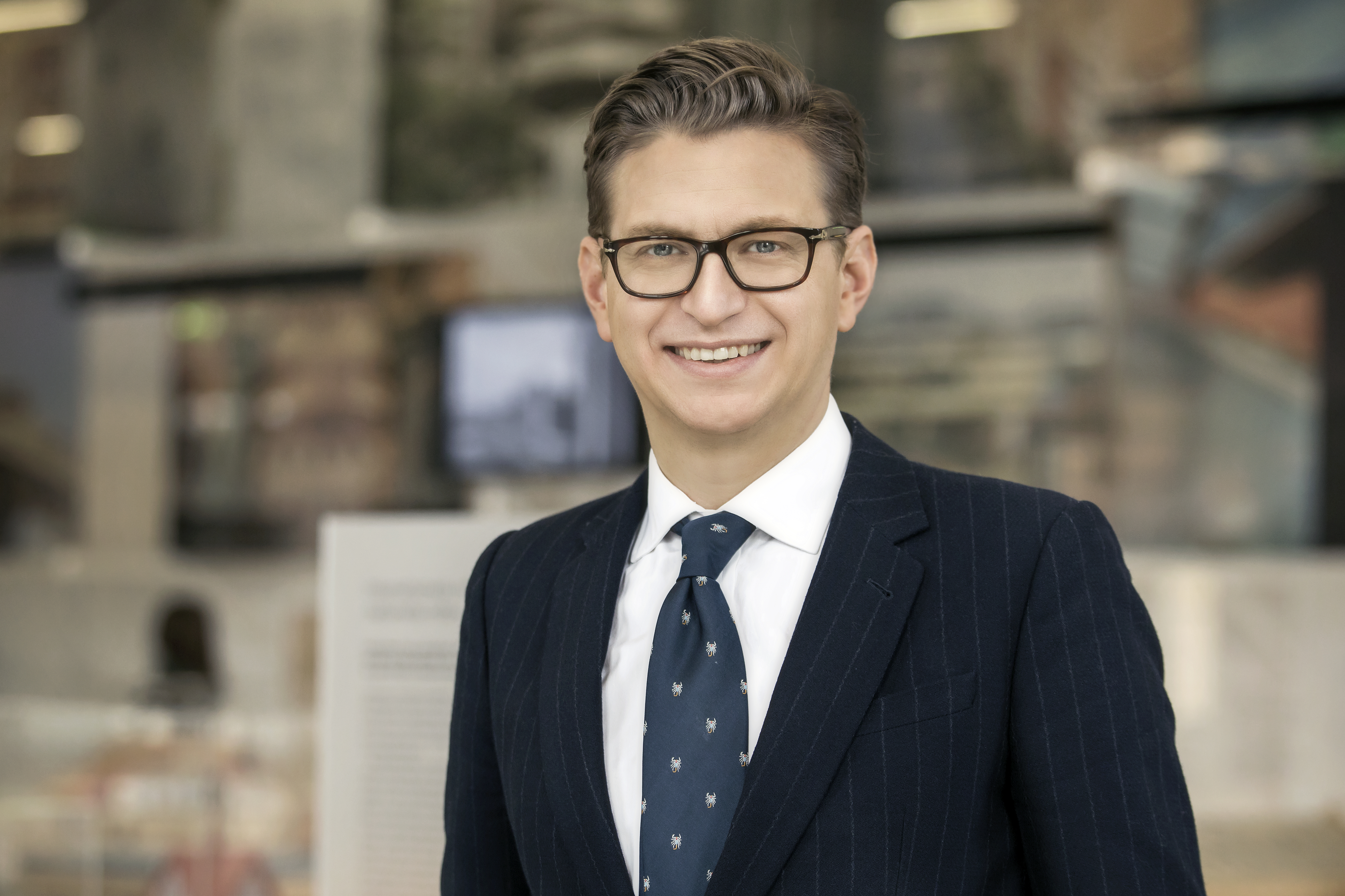 Kieran Long, Director of ArkDes, Arkitektur- och designcentrum (The Swedish Center for Architecture and Design) in Stockholm.